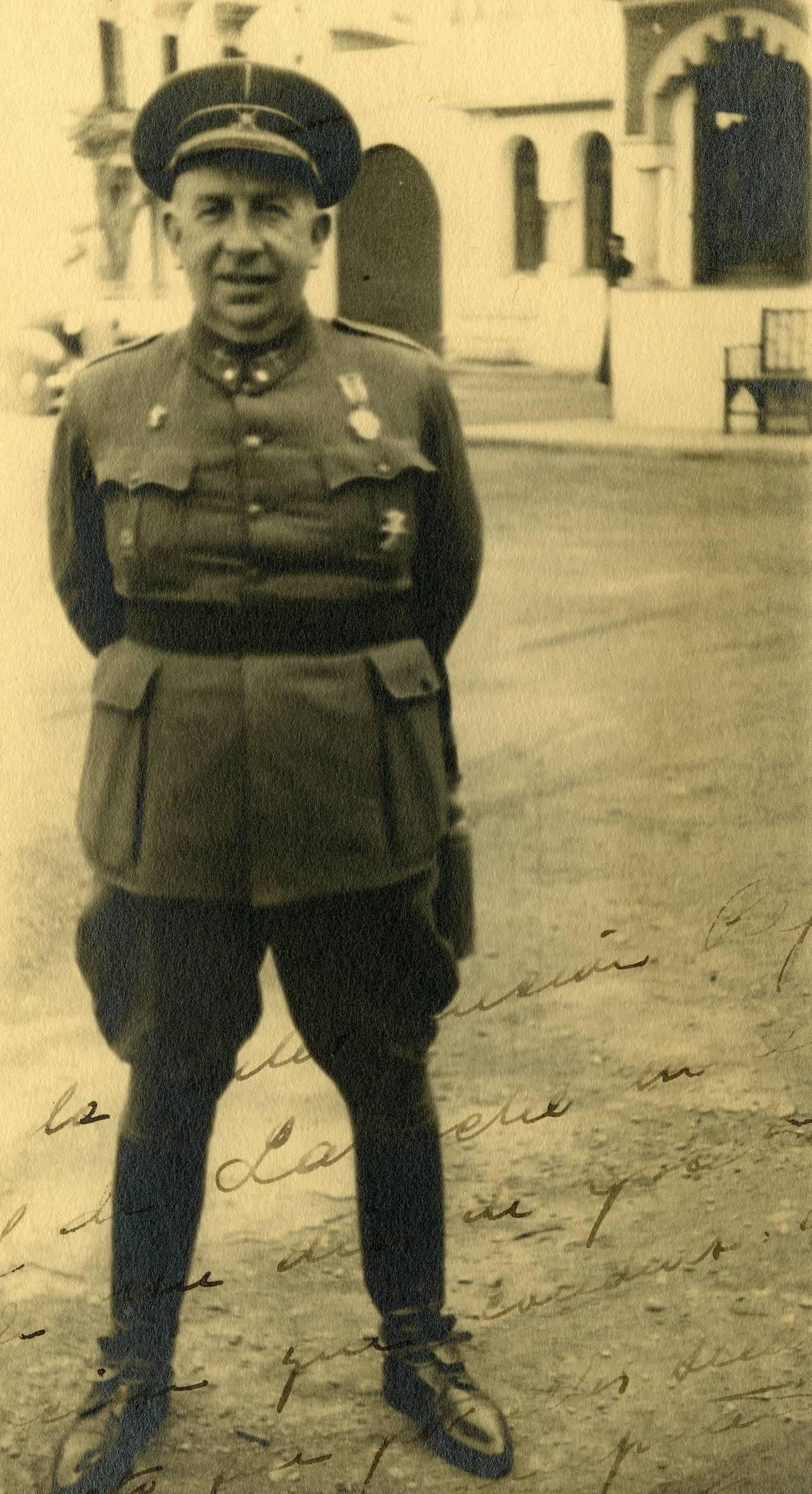 Spanish Army general Luis Orgaz Yoldi